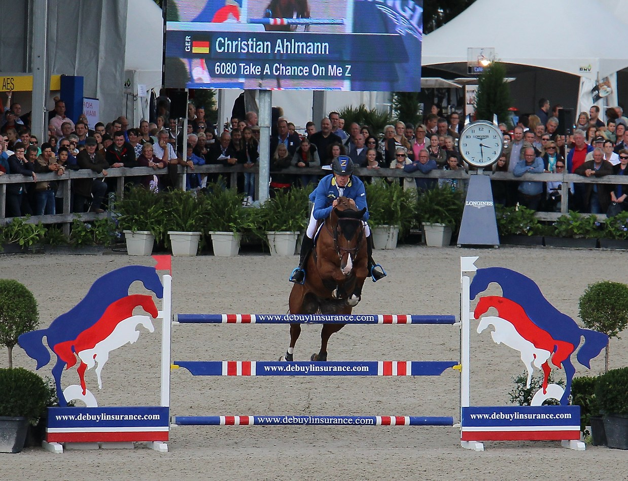 Christian Ahlmann (FEI World Breeding Jumping Championships for Young Horses, Lanaken - 2015)